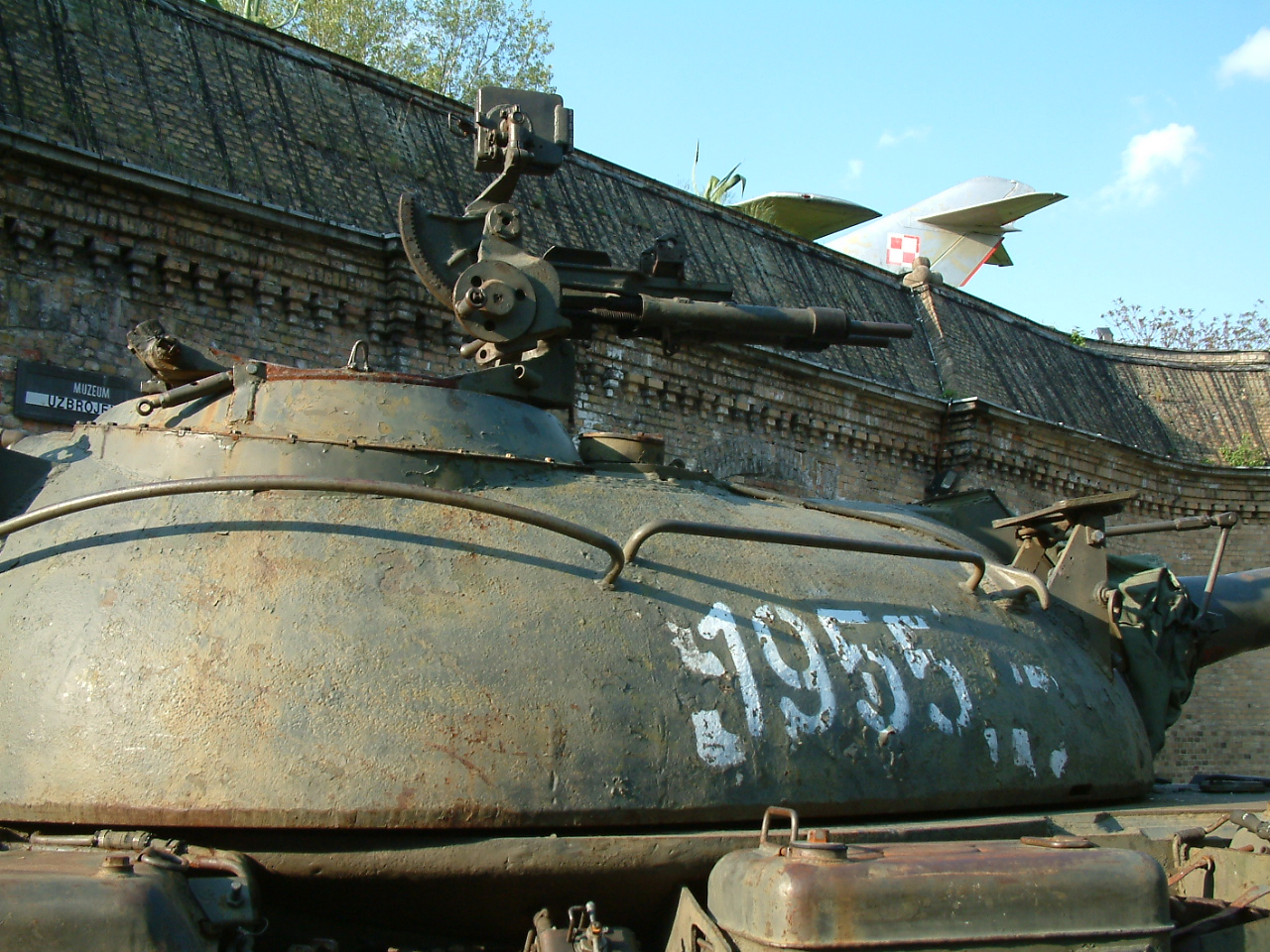 T-55 tank at the Museum of armament in Poznań